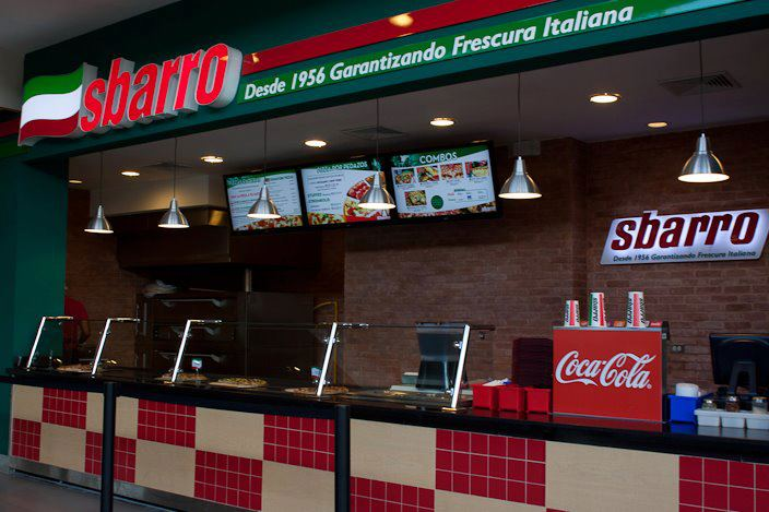 Sbarro restaurant